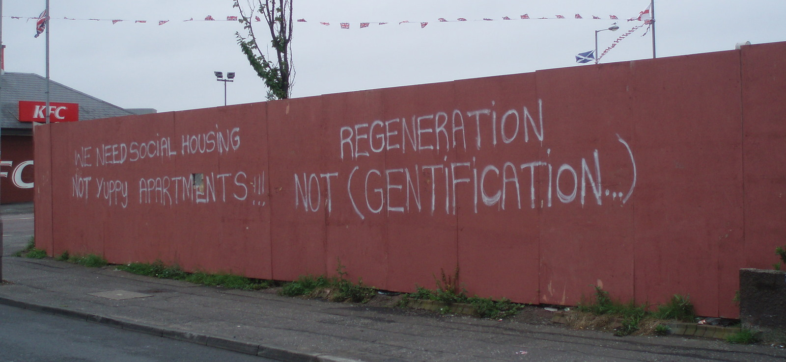 Graffiti fighting gentrification on the Shankhill Road